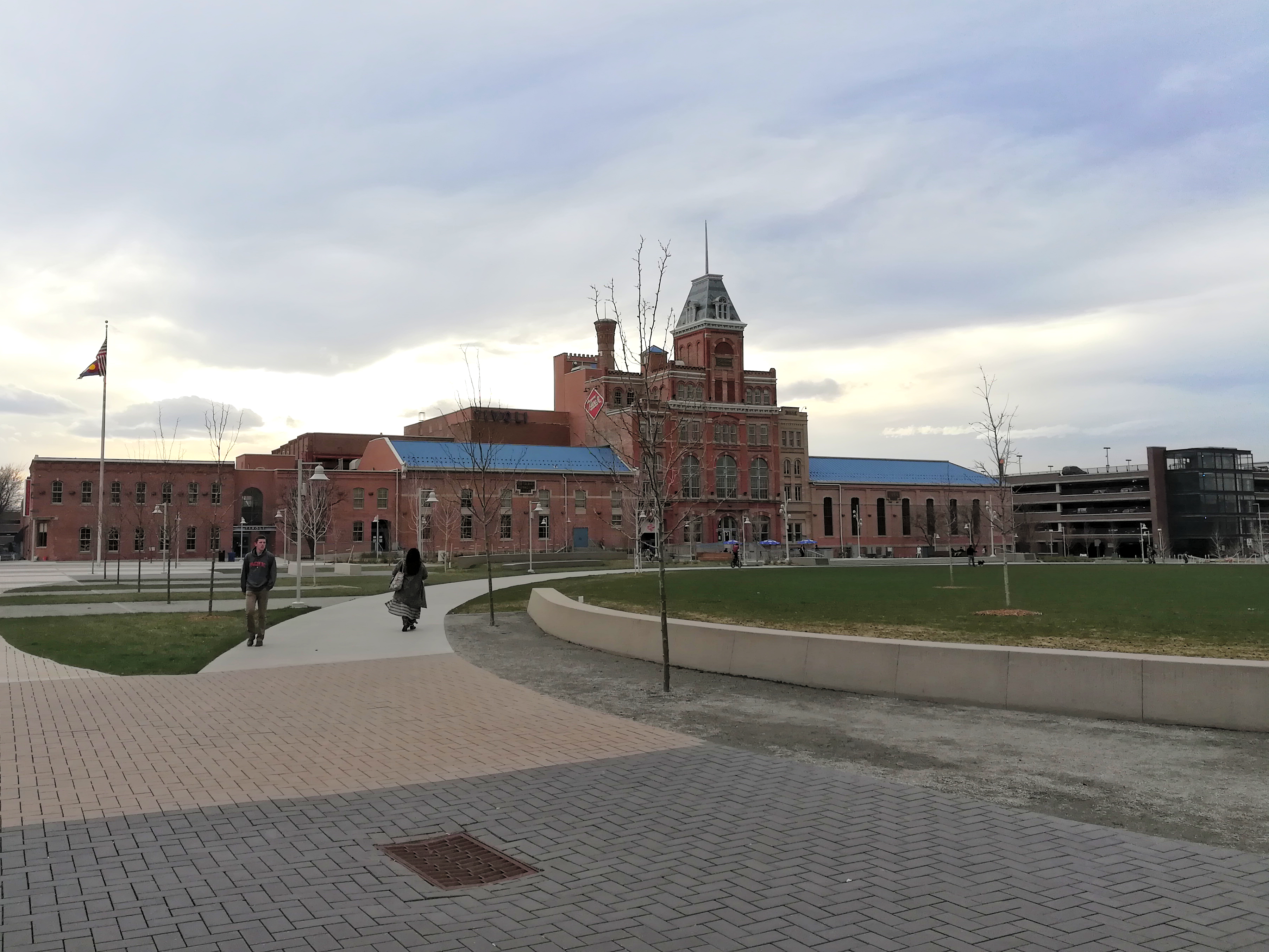 Denver Tivoli Brewing House